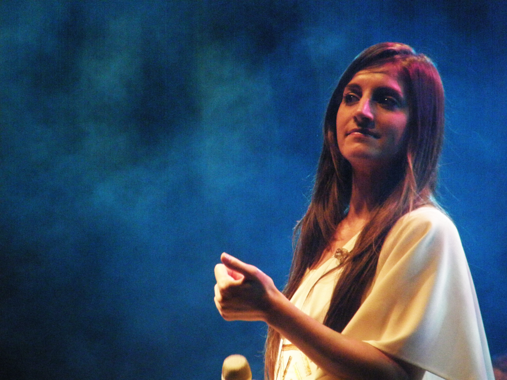 Soledad Pastorutti (Arequito, 12 de octubre de 1980), más conocida como Soledad o La Sole, es una cantante de expresión folclórica, esporádicamente compositora, actriz y conductora argentina. Se la apoda El Tifón o El Huracán de Arequito, por la energía que irradia en sus presentaciones y por su característico tono de voz.